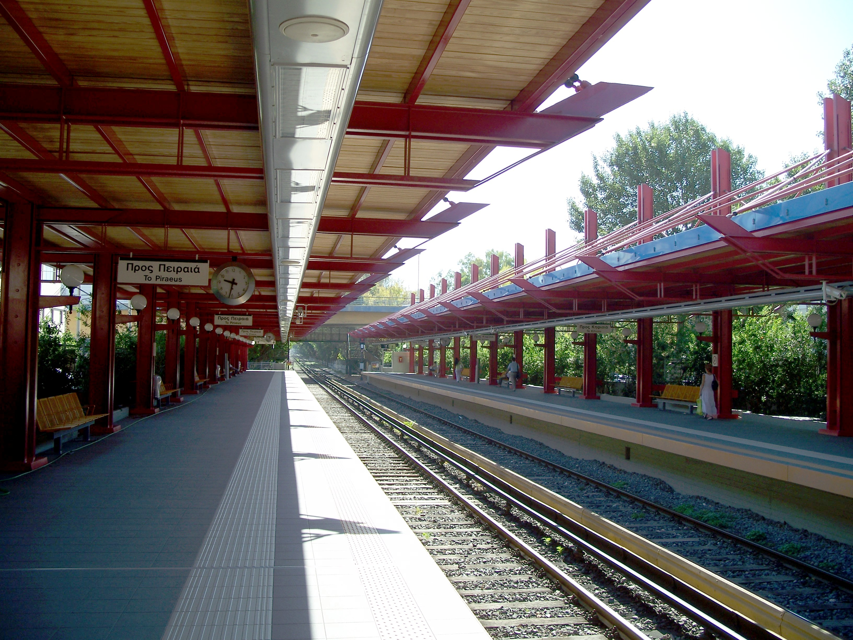 Moschato station of Athens Metro system.